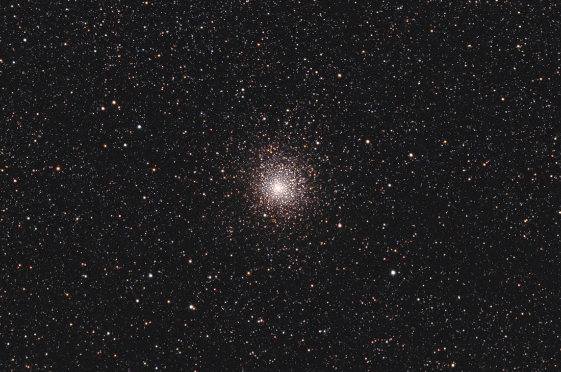 Messier 62 in Ophiuchus